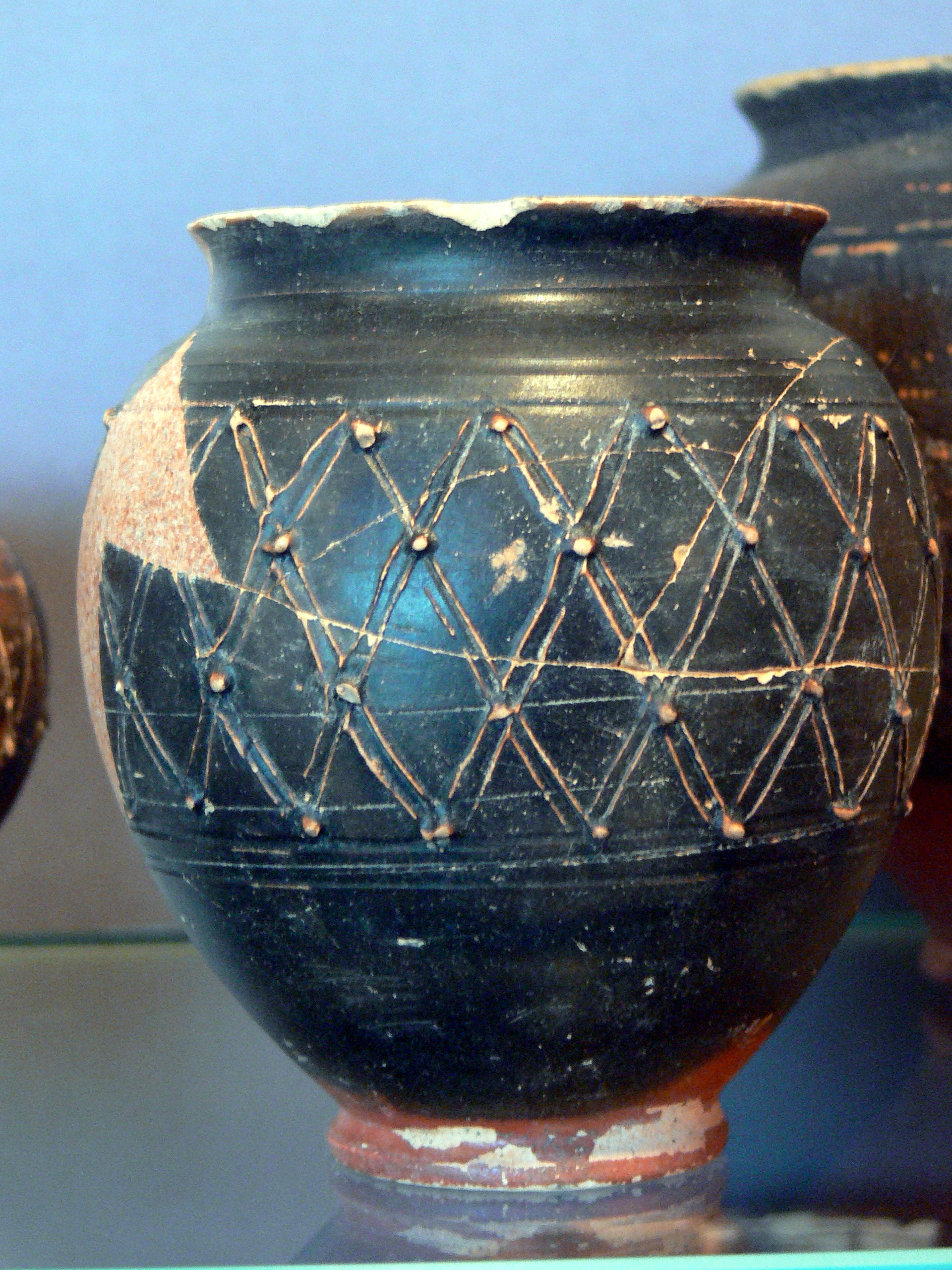 Museum Quintana - Roman department. Ancient Roman tableware.